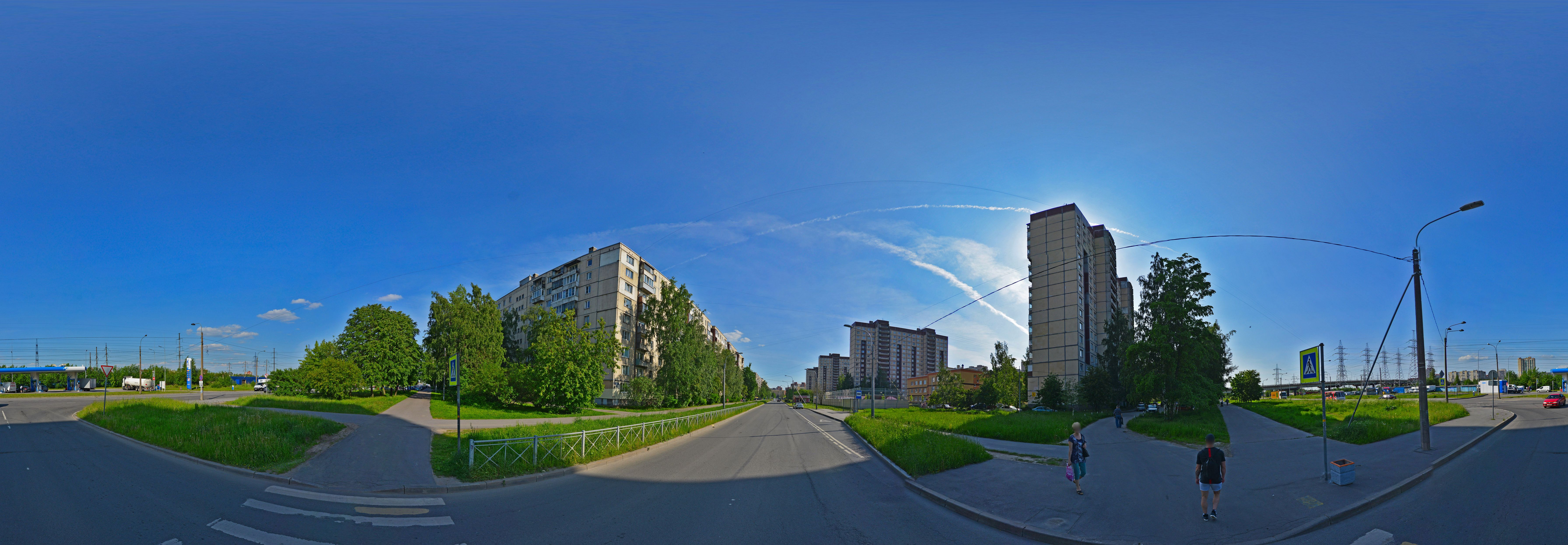 Chudnovskogo street